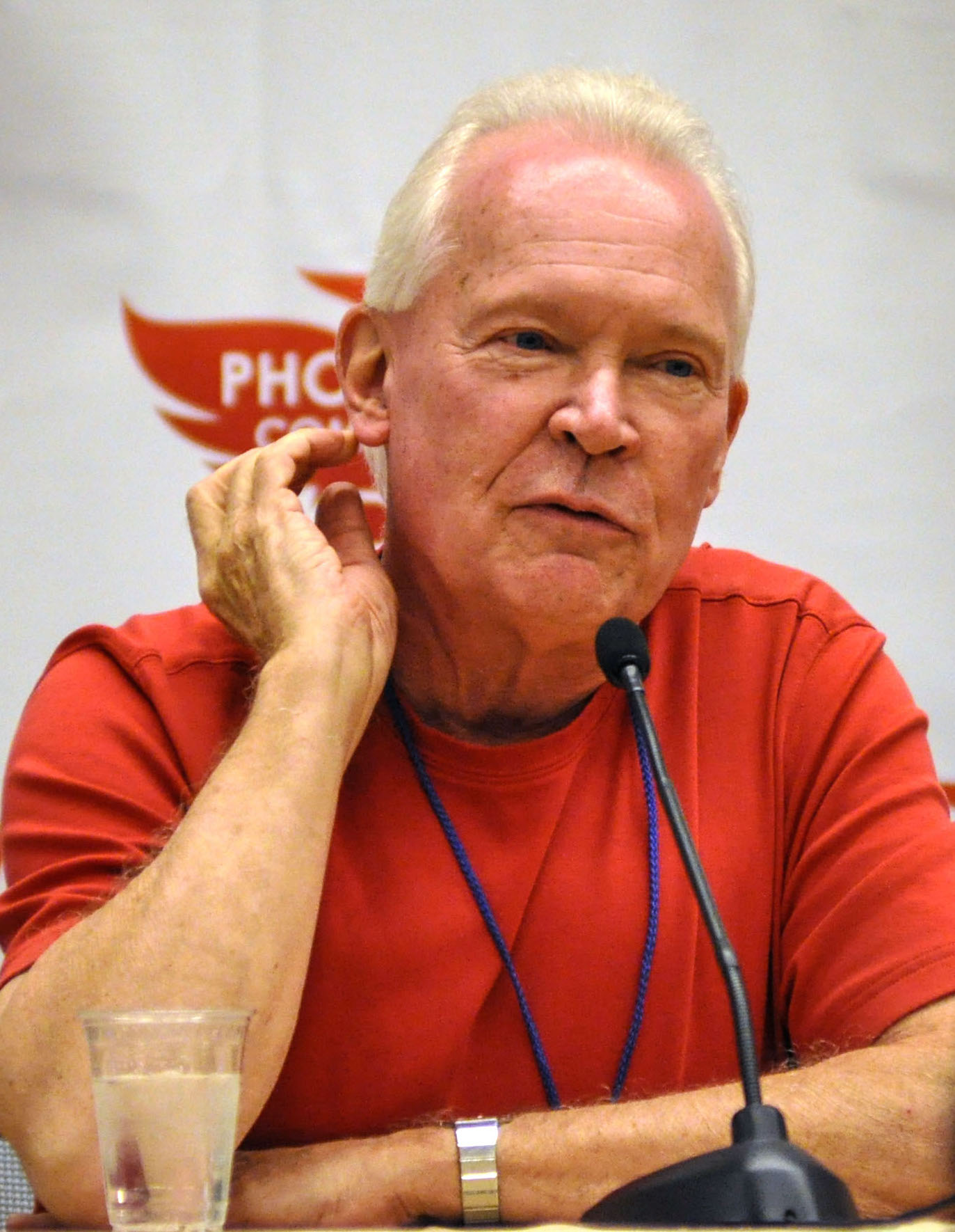 Terry Brooks @ Phoenix Comic Con, May 24, 2013